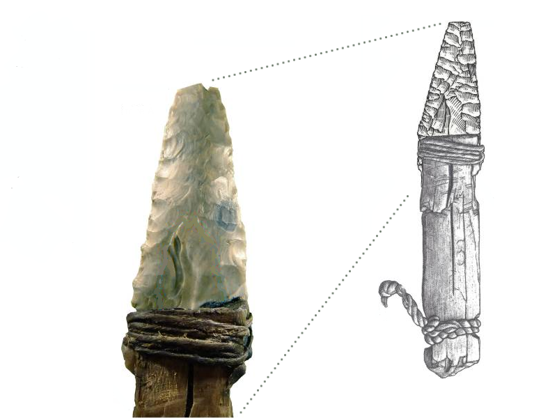 Ötzi the Iceman - Dagger The 132 mm long dagger comprises a chert blade hafted on a handle of ash wood. The blade (69 x 24 x 7.7 mm) is inserted into a deep slit and held in place with sinews, without any tar. A basal groove on the flat handle hosts a string made from lime-tree fibres which served to extract the dagger from its bast scabbard. The microfossils in the chert are mainly represented by radiolarians, calcispheres, calpionellids and a few sponge spicules. There are also several fragments of pelagic crinoids (Saccocoma). The presence of calpionellids and Saccocoma indicates an upper Jurassic age (Tithonian).